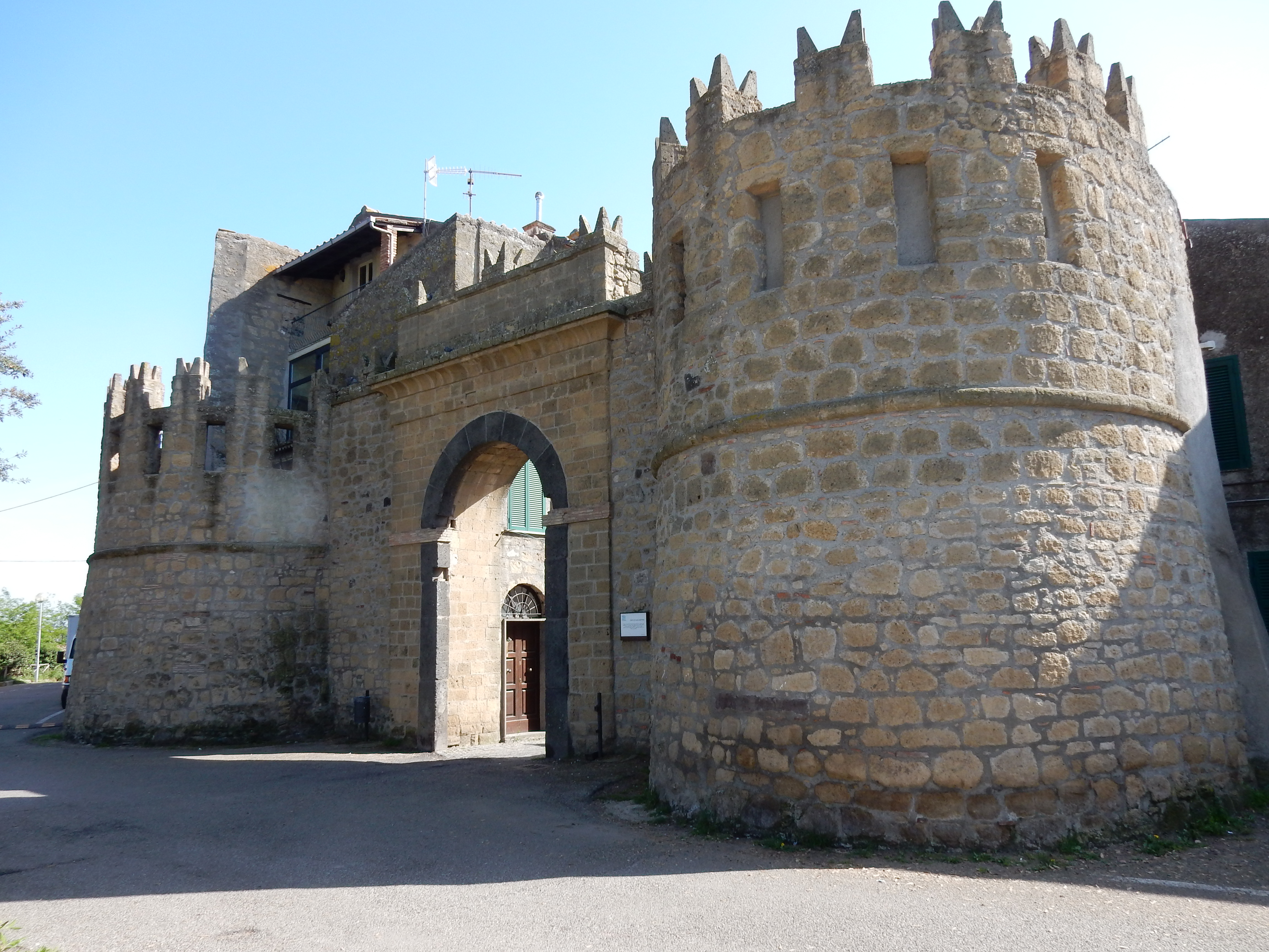 Porta San Martino Valentano